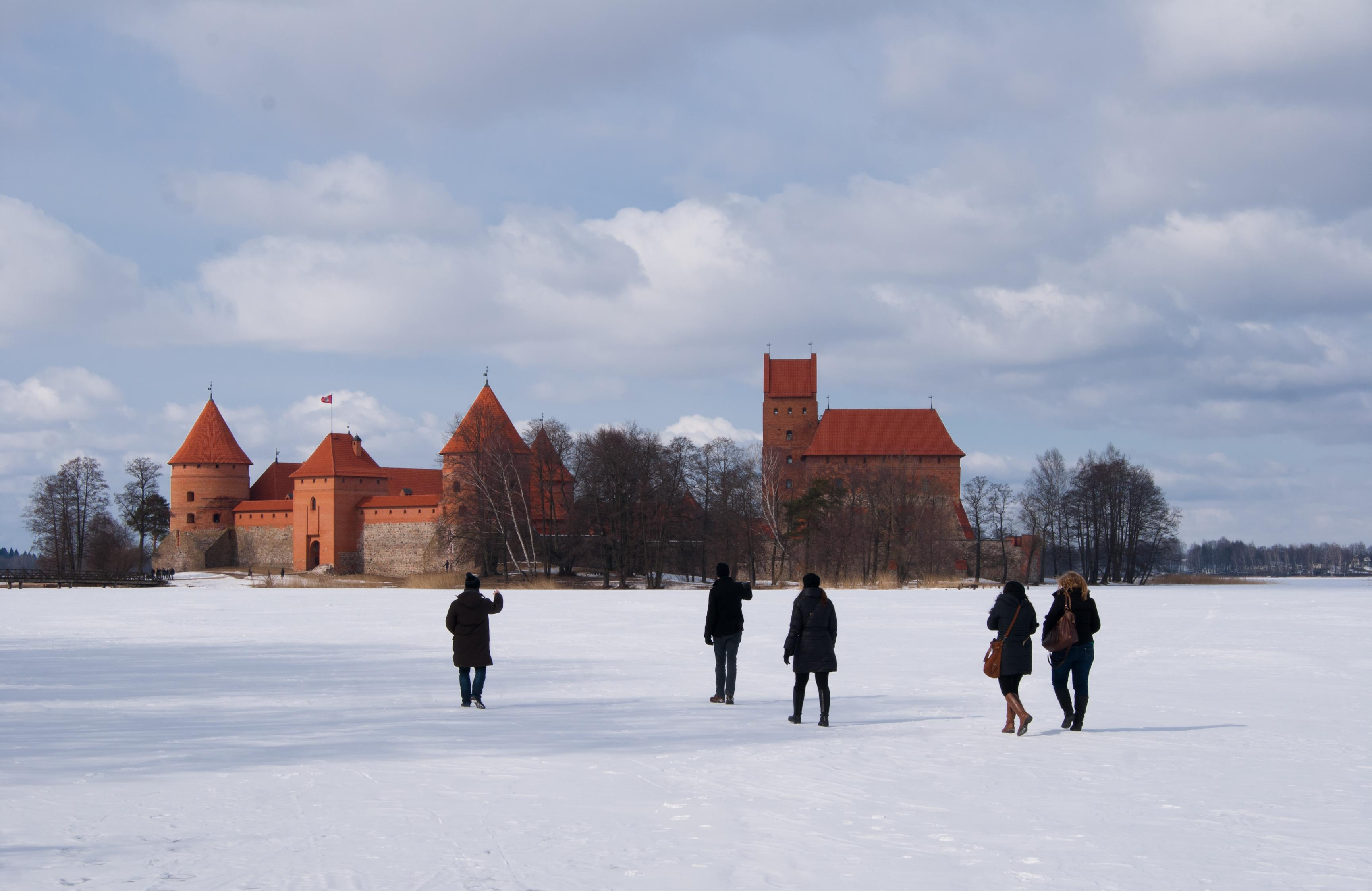 People walking on the frozen Lake Galvė with the Trakai Island Castle in the distance.